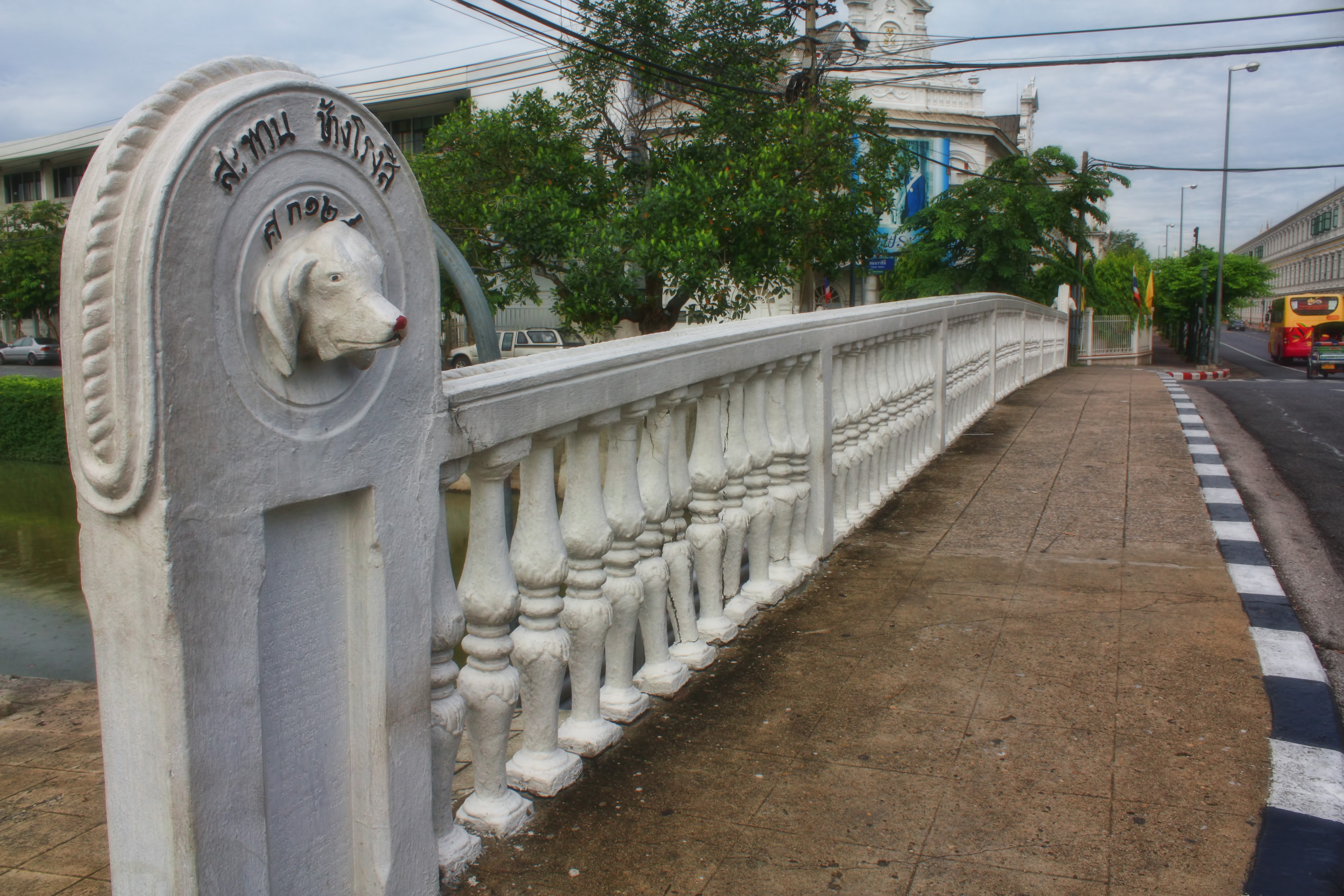 Saphan Chang Rong Si (Elephant Bridge at the Mill), Bamrung Mueang Road over Khlong Lot, Bangkok. The original structure was built in 1910, which was a dog year according to the Chinese calendar. The sculptures of Dogs' heads at the end pieces remind of that year.